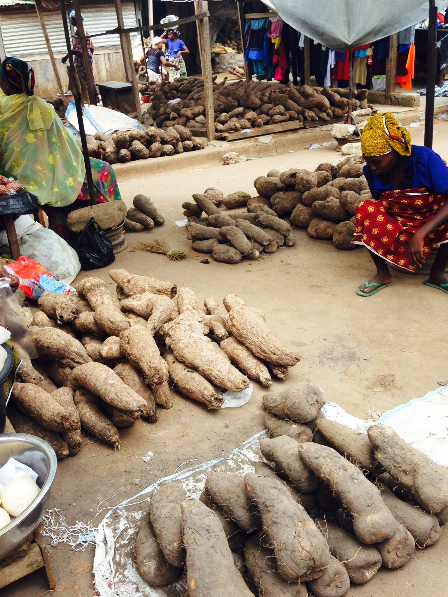 Local market in Bondoukou